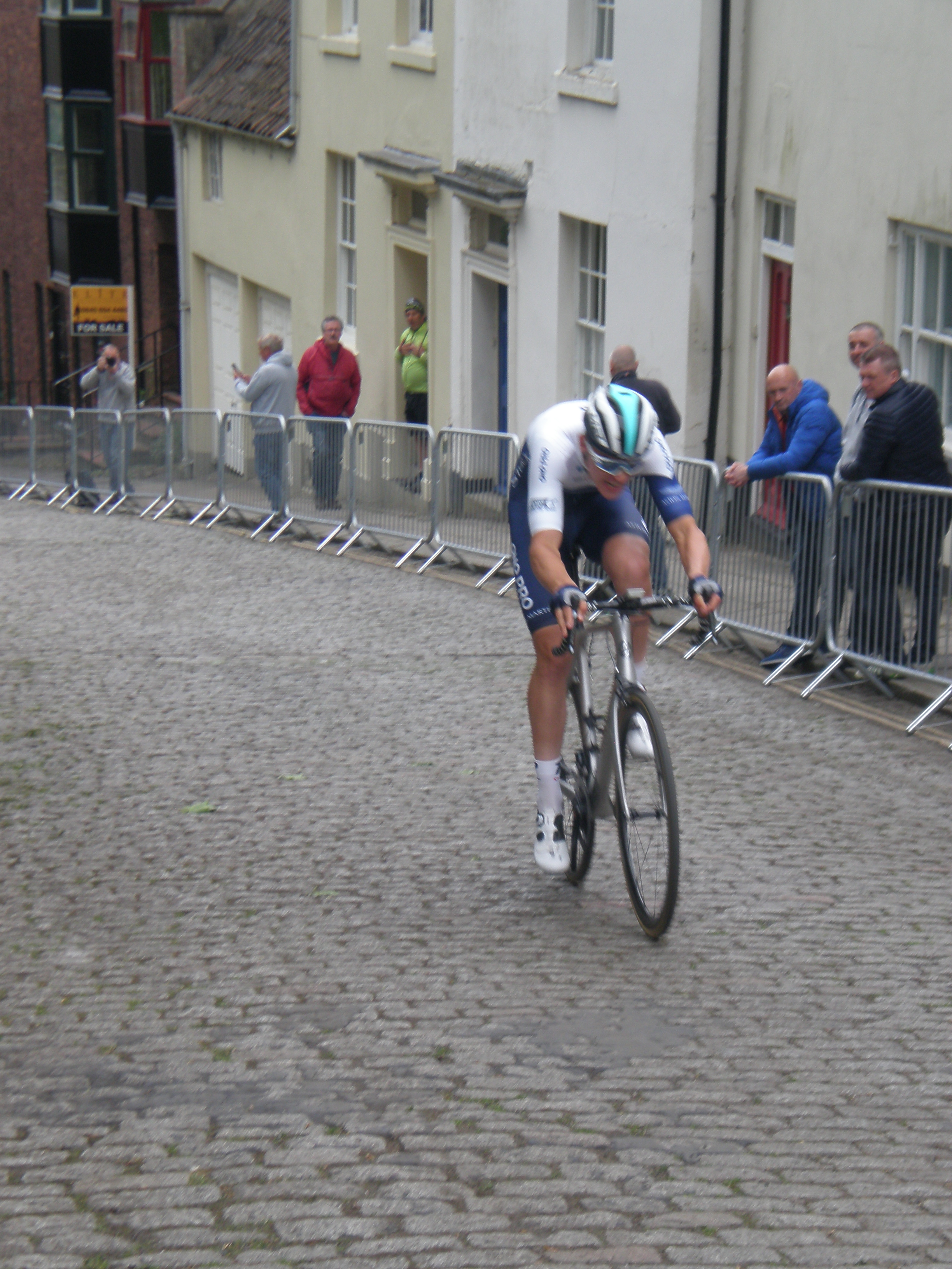 Szymon Tracz (ONE Pro Cycling) on the climb of South Street, which constituted Round 4a of the 2018 Tour Series, in Durham.